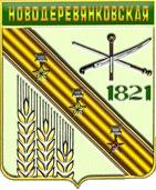 Coat of arms of Novodereviankovskaya, Kanevskaya raion, Krasnodar krai, Russia.